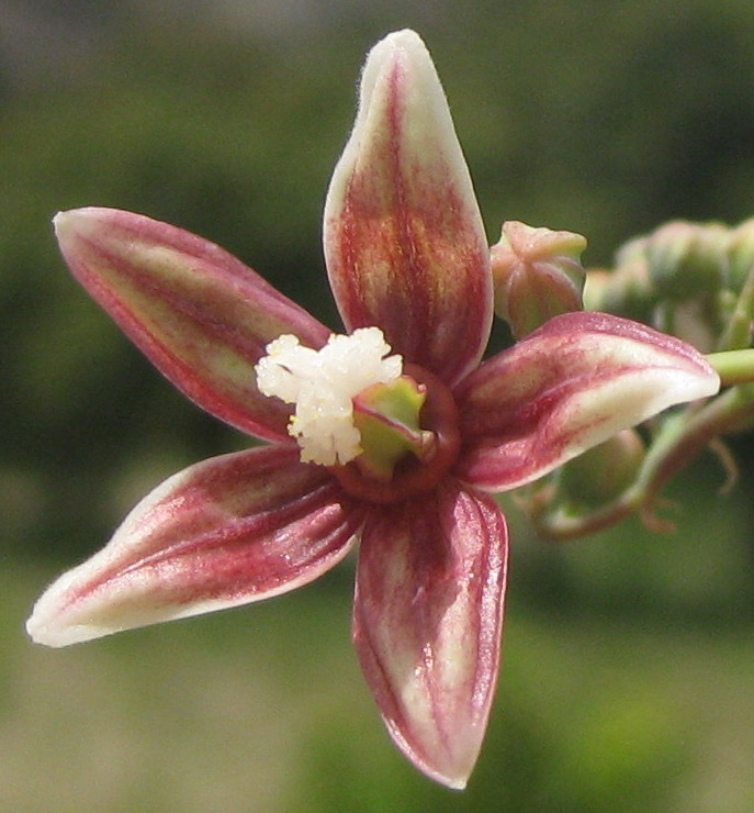 Female flower of cassava (Manihot esculenta). Cultivar: 'Maria', a non-bitter cassava variety. This picture was taken close to Chimoio, Mozambique.